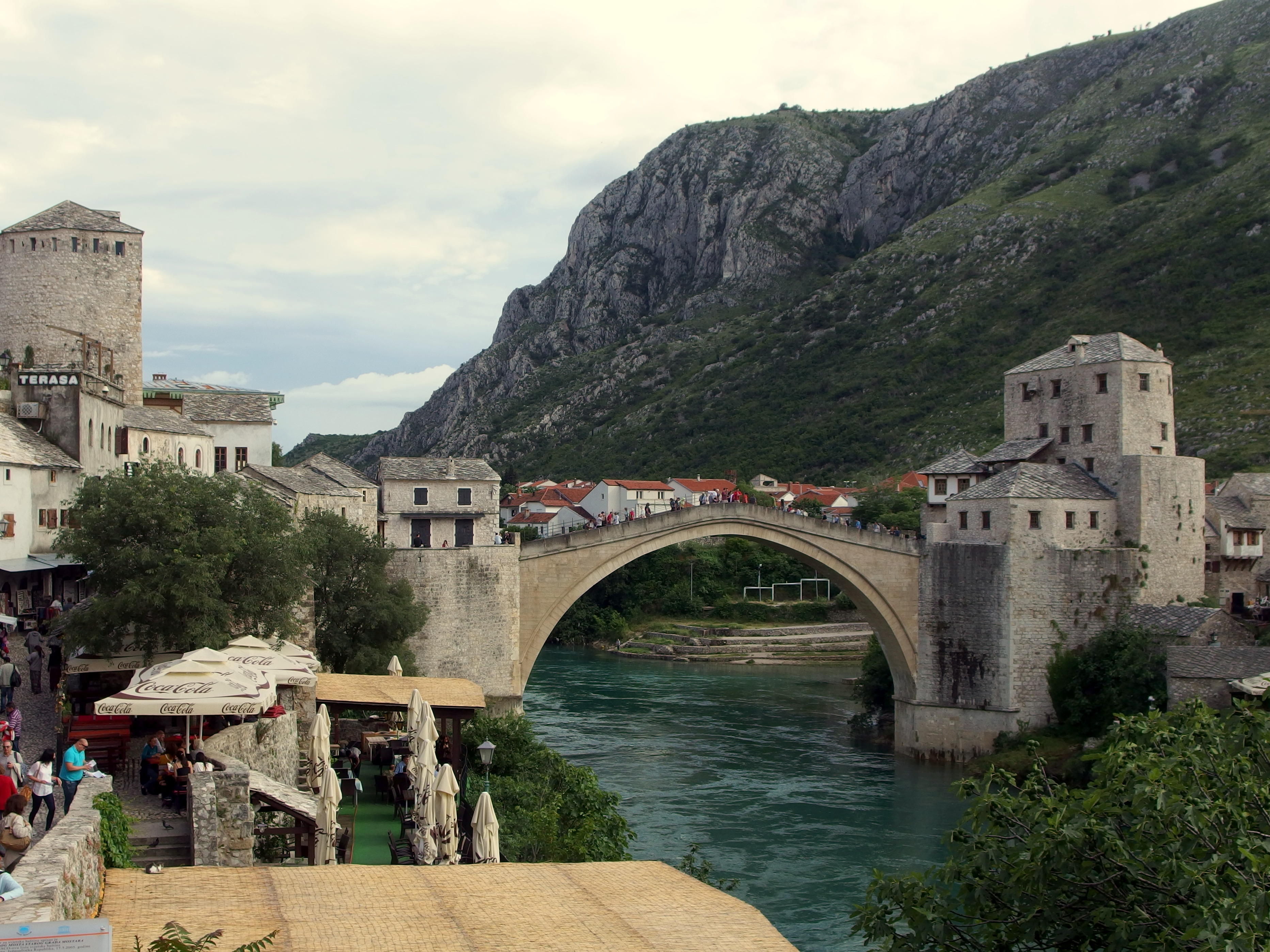 2013-06-06 in Mostar.